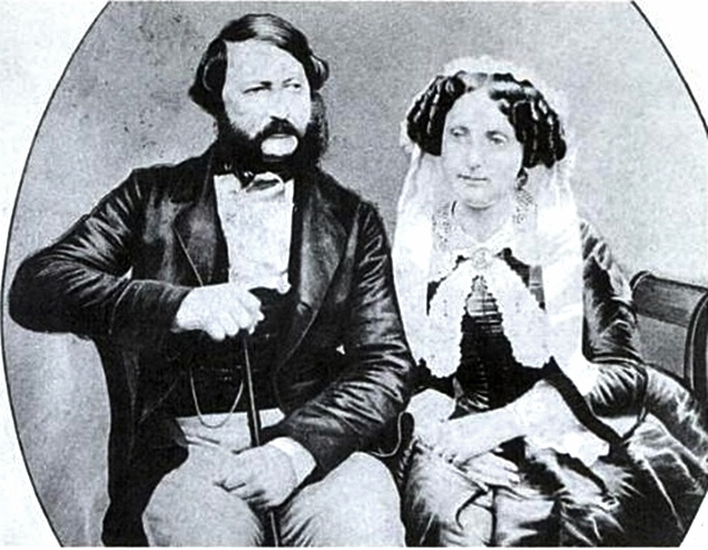 Prince August of Saxe-Coburg and Gotha and Princess Clementine of Orléans.